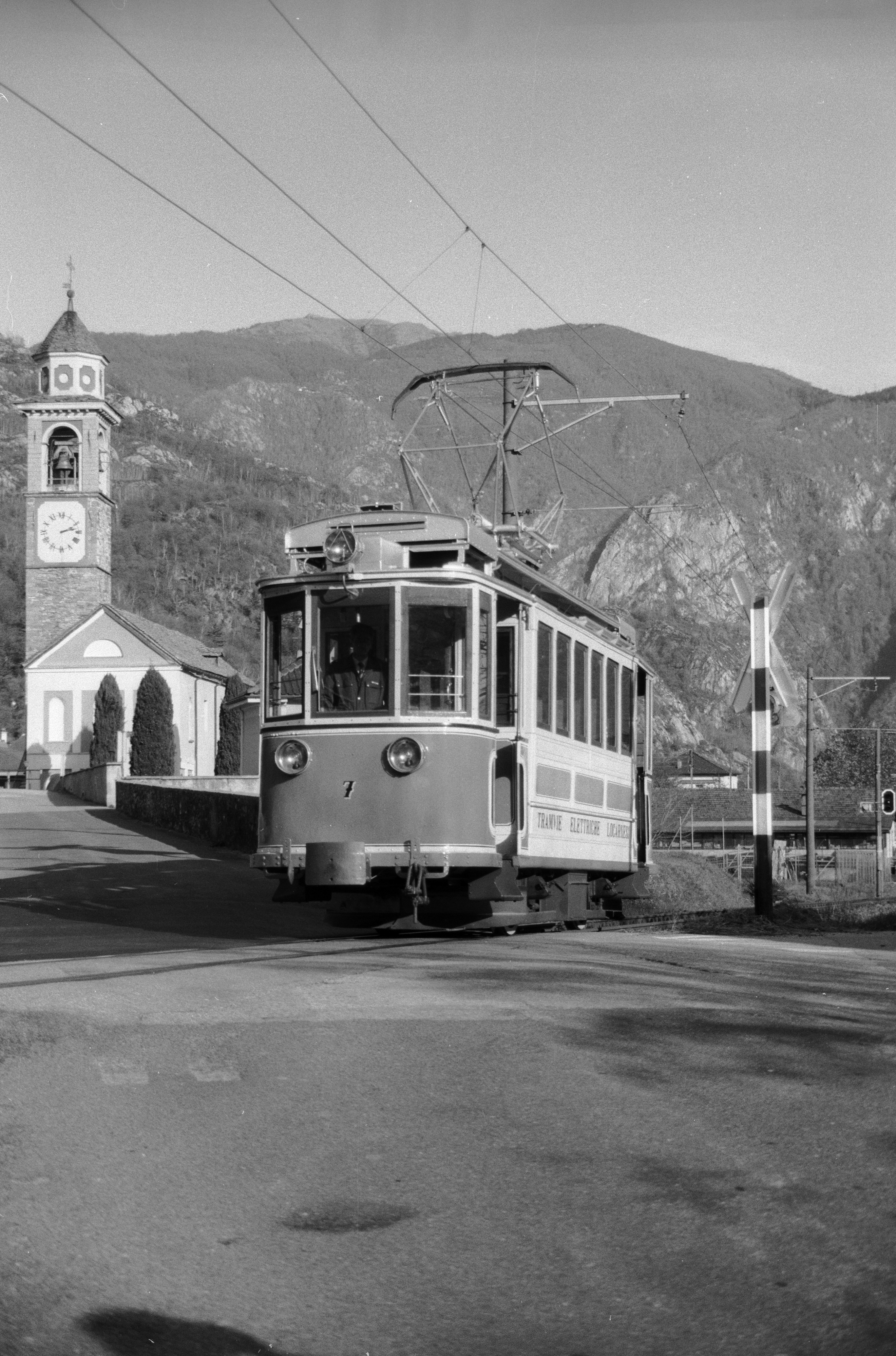 FART Be 2/2 7 in Cavigliano.